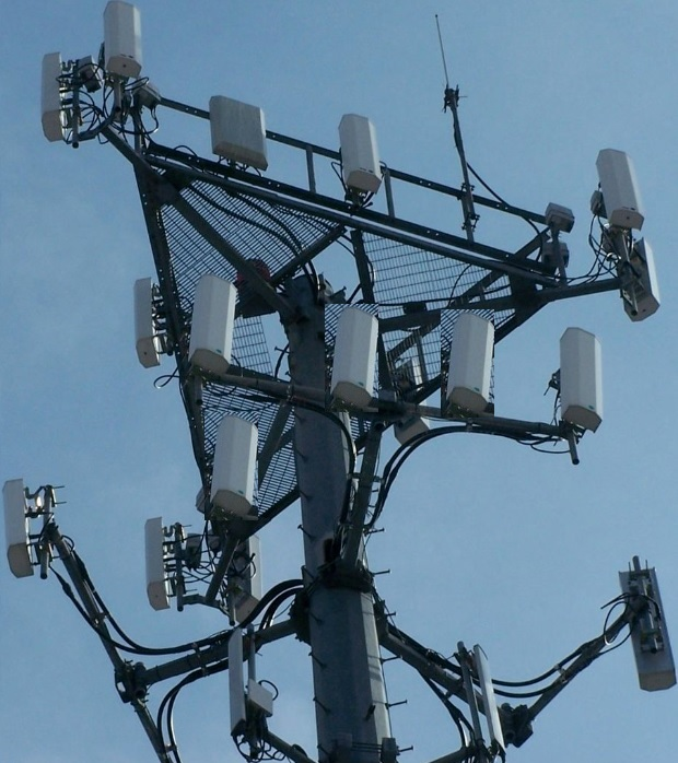 Updated Celluar Antennas with tower for the usage of 5G mobile (photomontage)